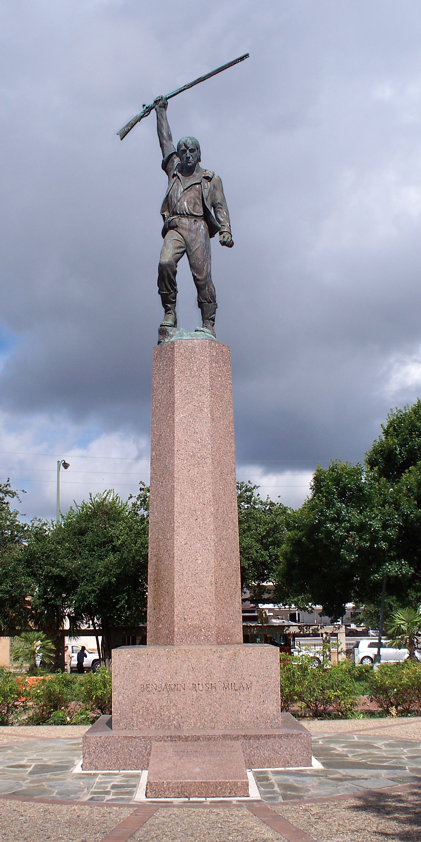 A monument to Benjamin Rush Milam located in San Antonio, Texas